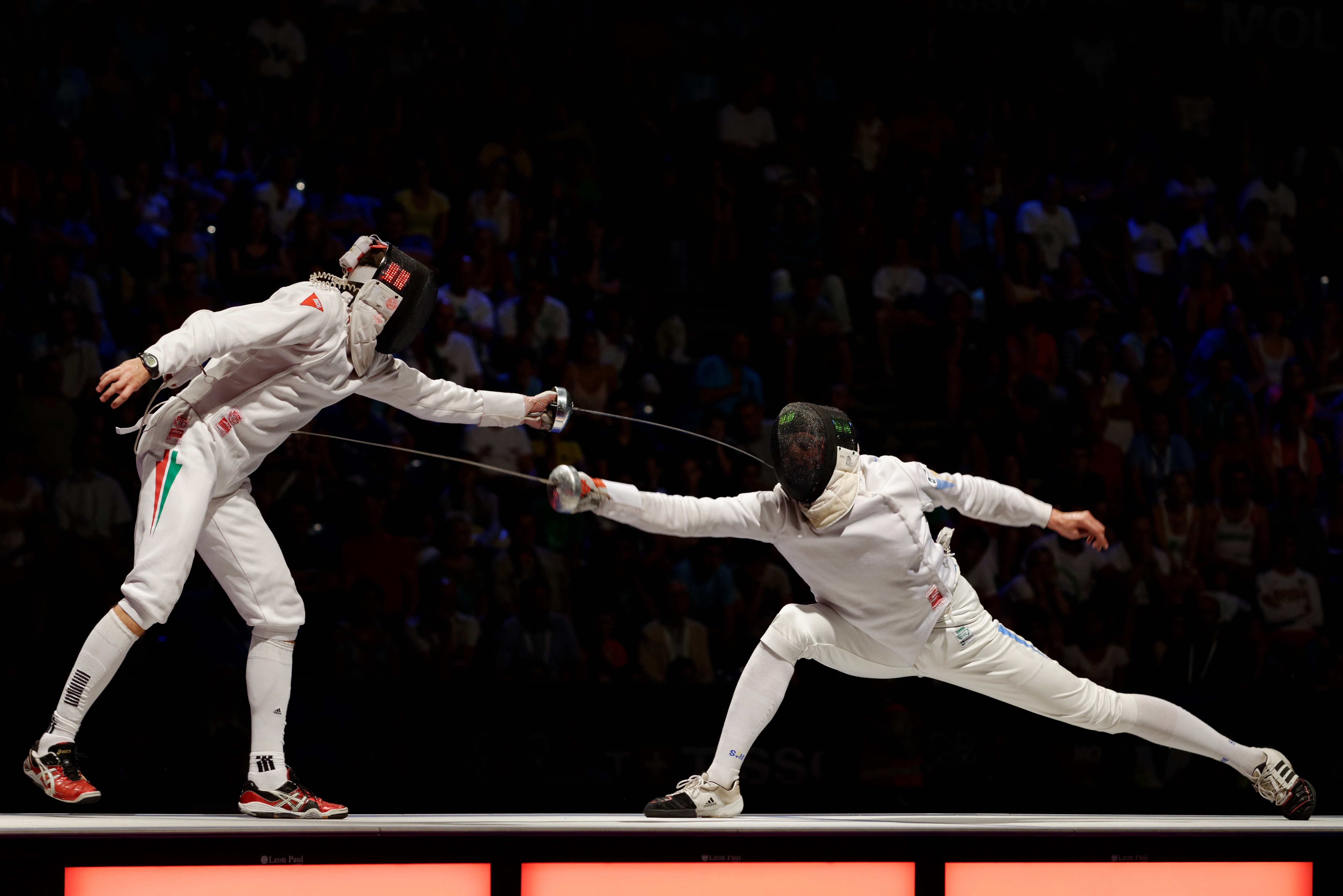 Hungary's Géza Imre (L) fences against Vitalii Medvediev of Ukraine (R) in the final of the 2013 World Fencing Championships at Syma Hall in Budapest, 11 August 2013.